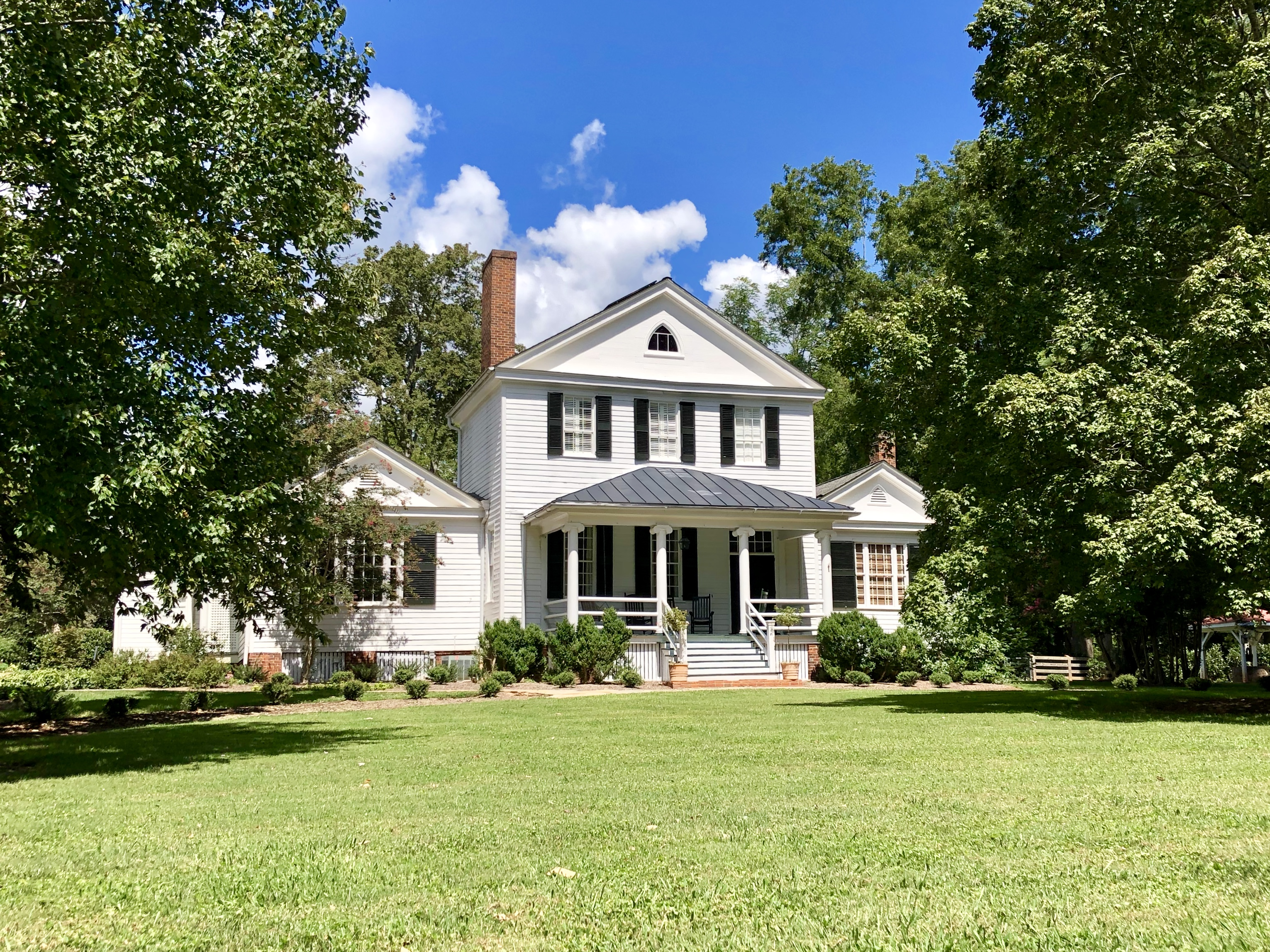 This is the Hazel-Nash House (Hasell-Nash House), constructed circa 1820 and located on Queen Street in Hillsborough, North Carolina. The house was listed on the National Register of Historic Places in 1971.